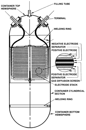 Schematics of a Nickel-hydrogen_battery. Source caption: NiH2 CPV Positioned Vertically (only the upper of two stack sets is shown)